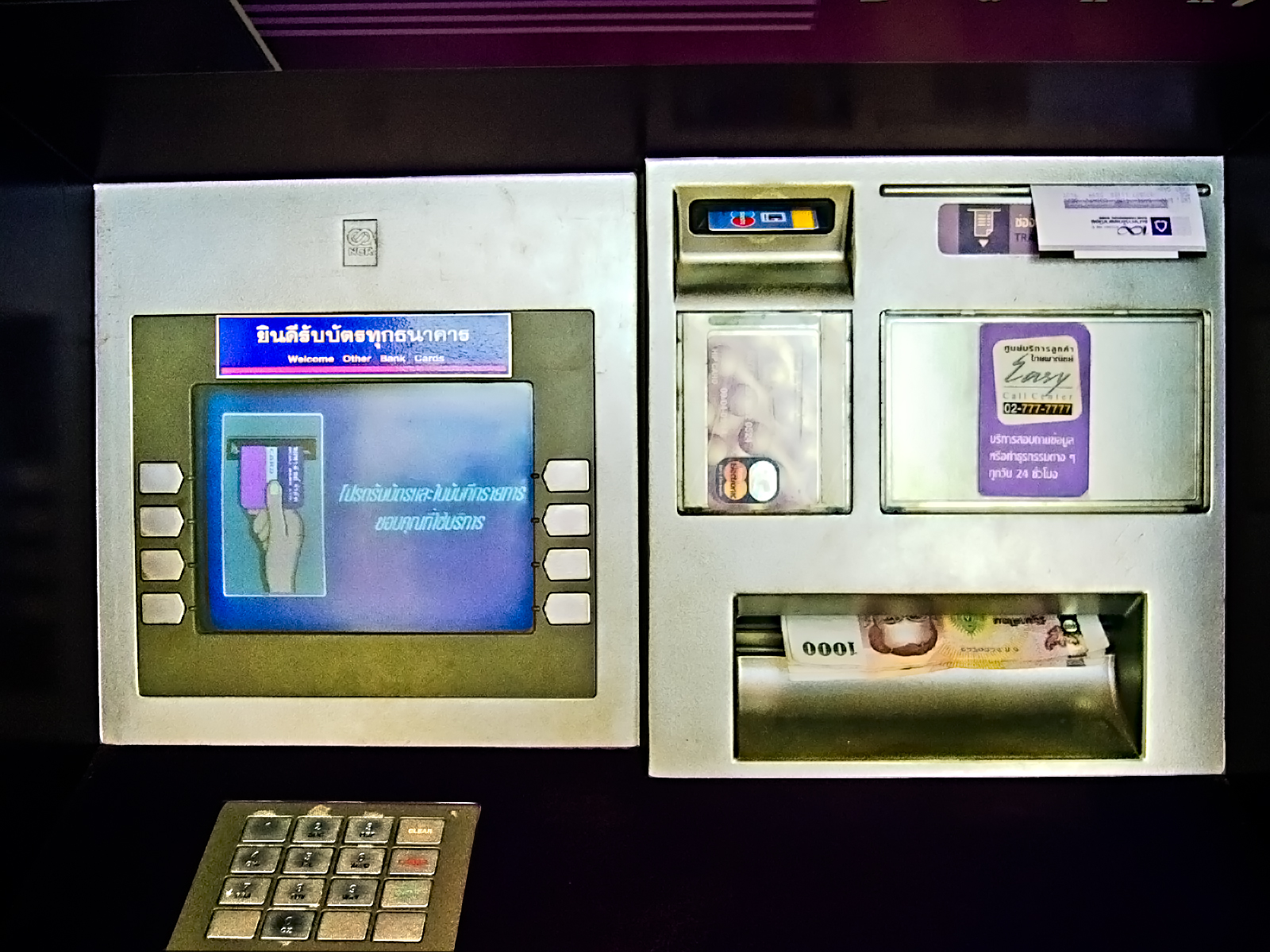 Siam Commercial Bank Automatic teller machine, Thailand -- note the receipt.